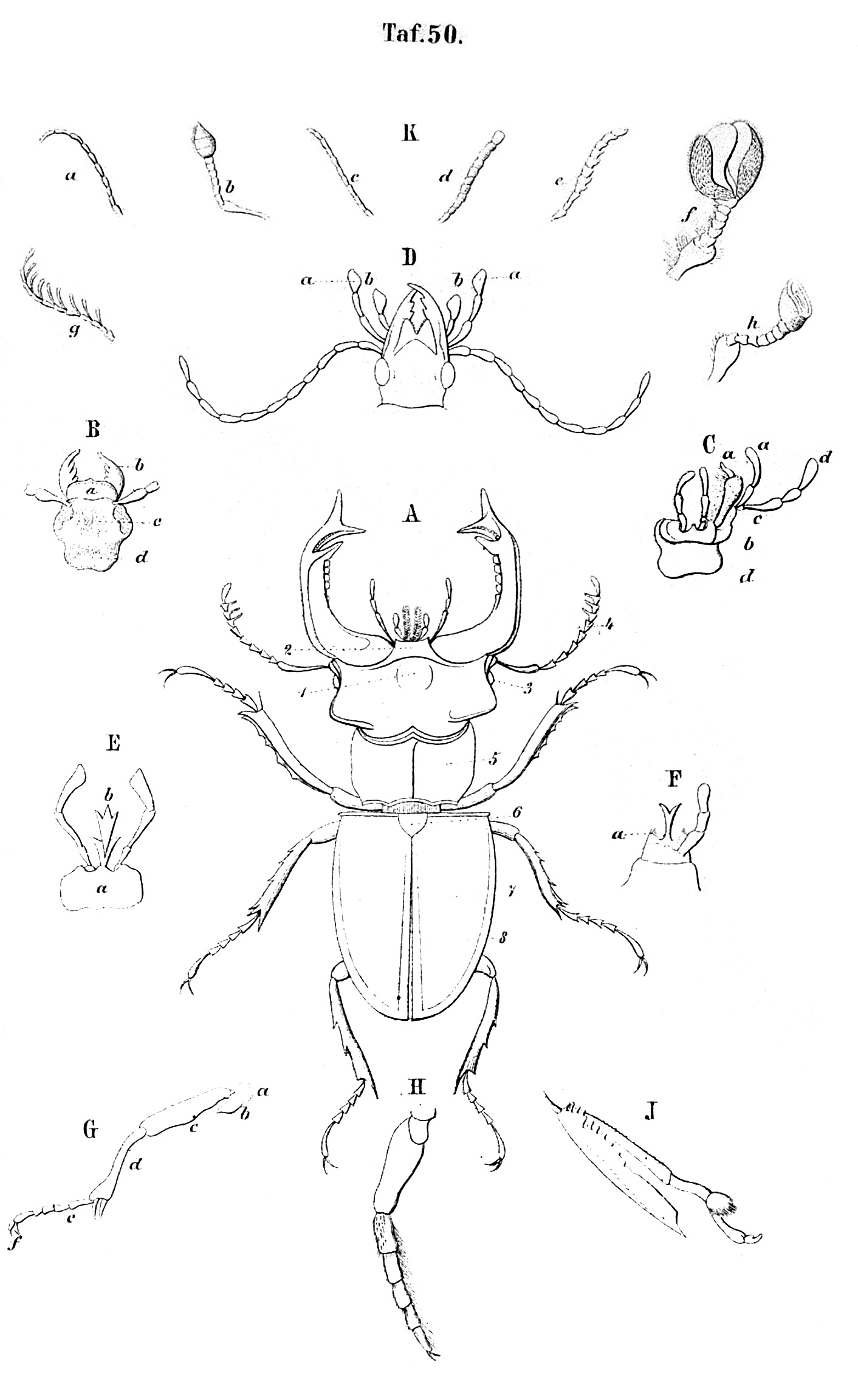 scheme of parts of beetles